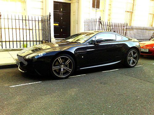 Aston Martin V8 Vantage N400.